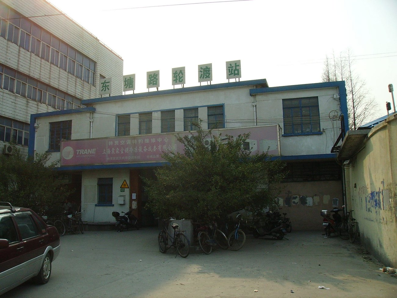 Dongtang Rd Ferry